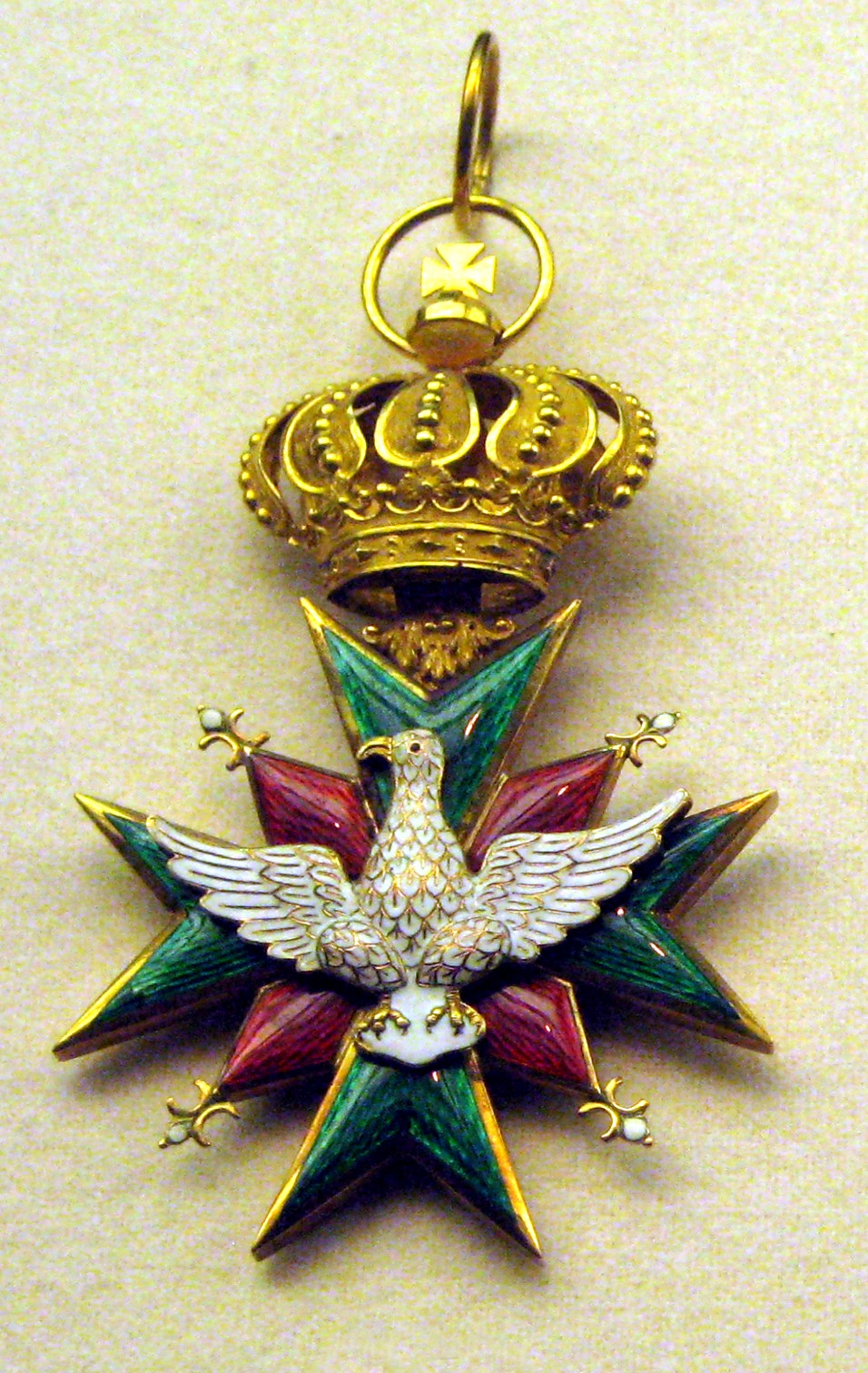 The big cross of the order of the Falcon (Falkenorden), Sachsen-Weimar, mid. 19 c.